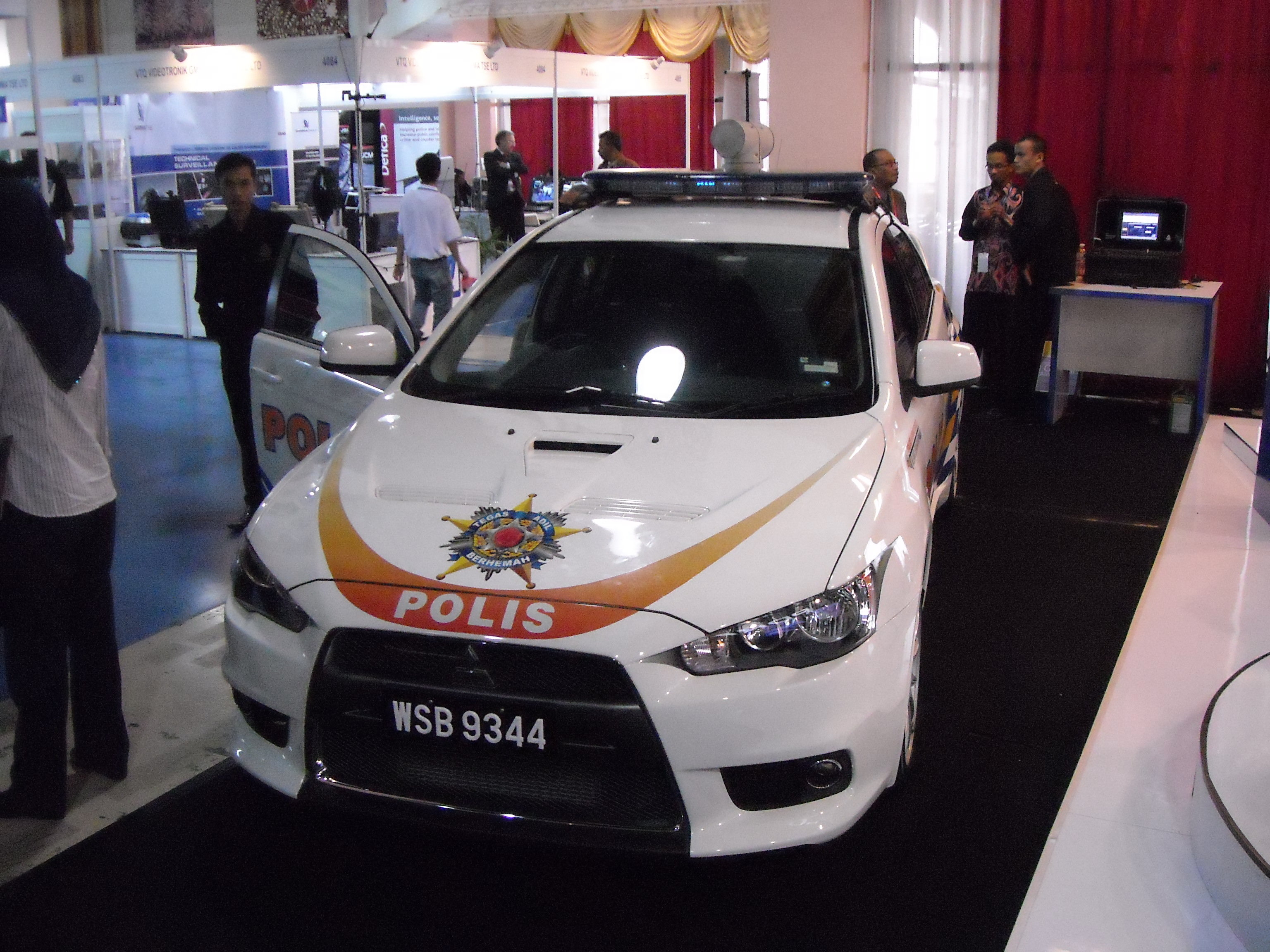 The Japan-made Mitsubishi Lancer Evolution X delivered on December 2008 for Malaysian police as the Special Police Patrol Car. Known as Helang Lebuhraya Polis (Police Highway Eagle), these patrol car fleet will probably be used by Highway Pursuit / Patrol or VIP Escort.